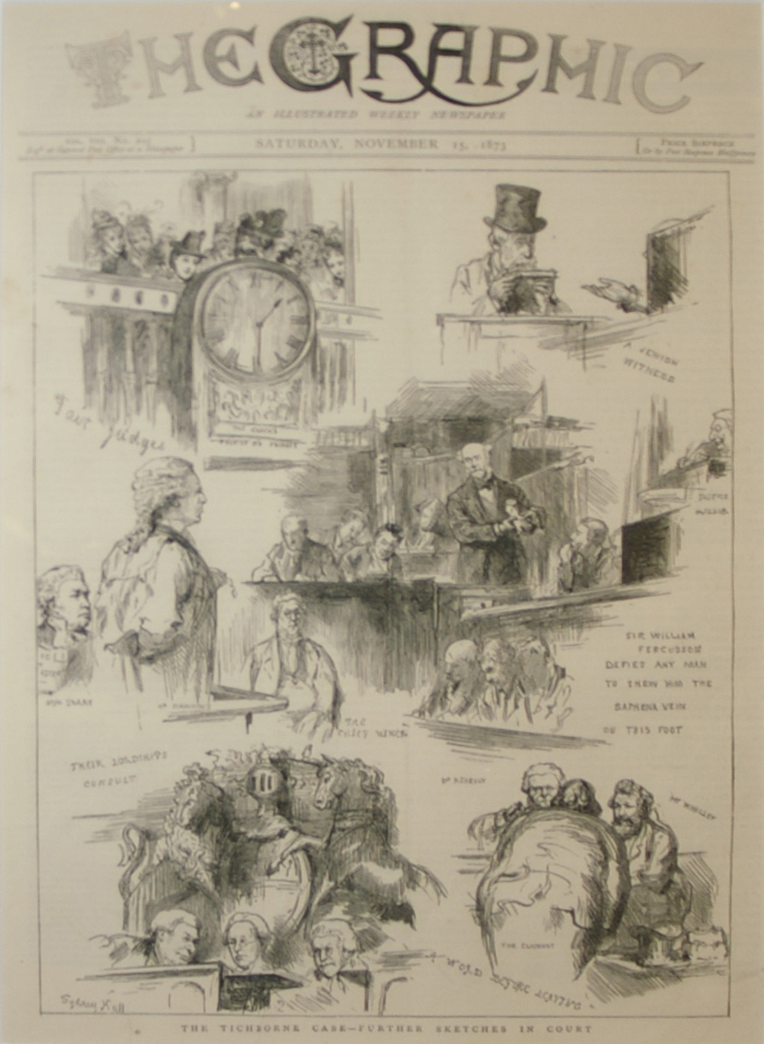 The Graphic - Tichborne Case (1873). Museum of the Riverina